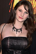 Cropped from File:Hunger Games - Flickr - Eva Rinaldi Celebrity and Live Music Photographer.jpg